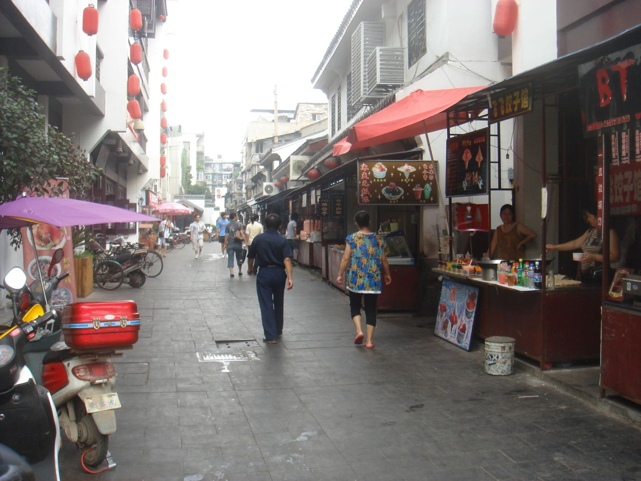 Hubu Xiang